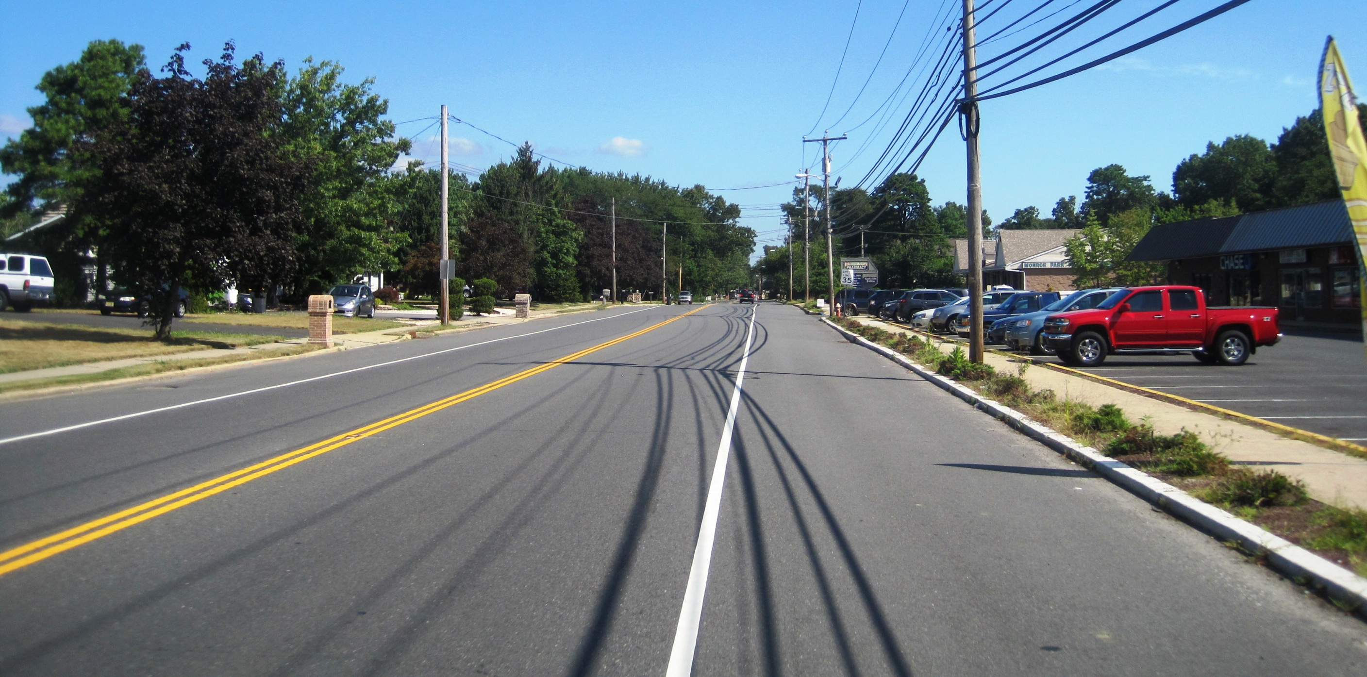 Photo of Spotswood Manor, New Jersey, an unincorporated community within Monroe Township, Middlesex County. Photo taken on northbound Spotswood-Englishtown Road (County Route 613).